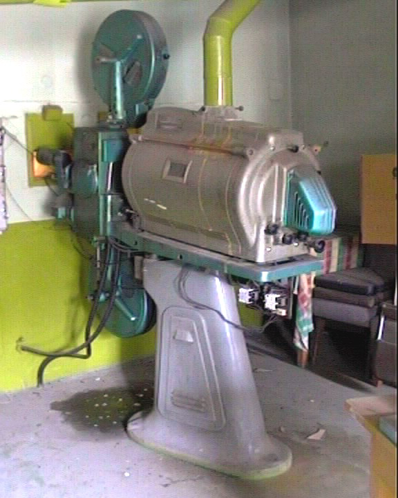 Professional 35mm projector AP-5 from LZK (later PREXER)